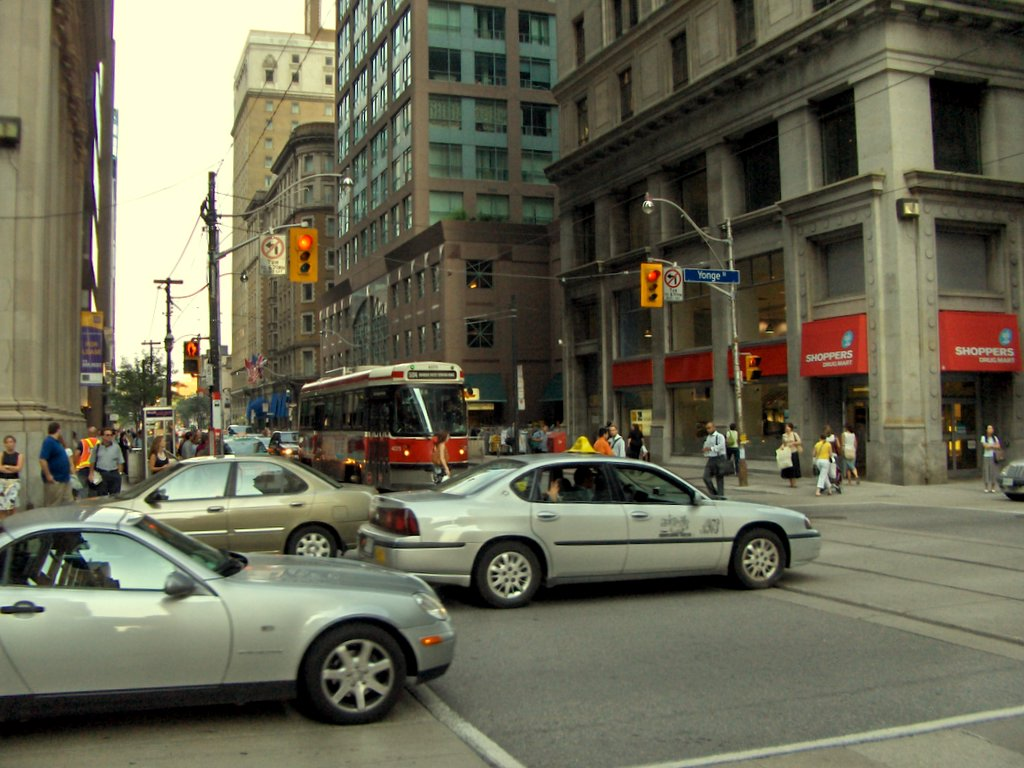 Yonge Street at King Street, looking east on King Street East. Toronto, Canada.